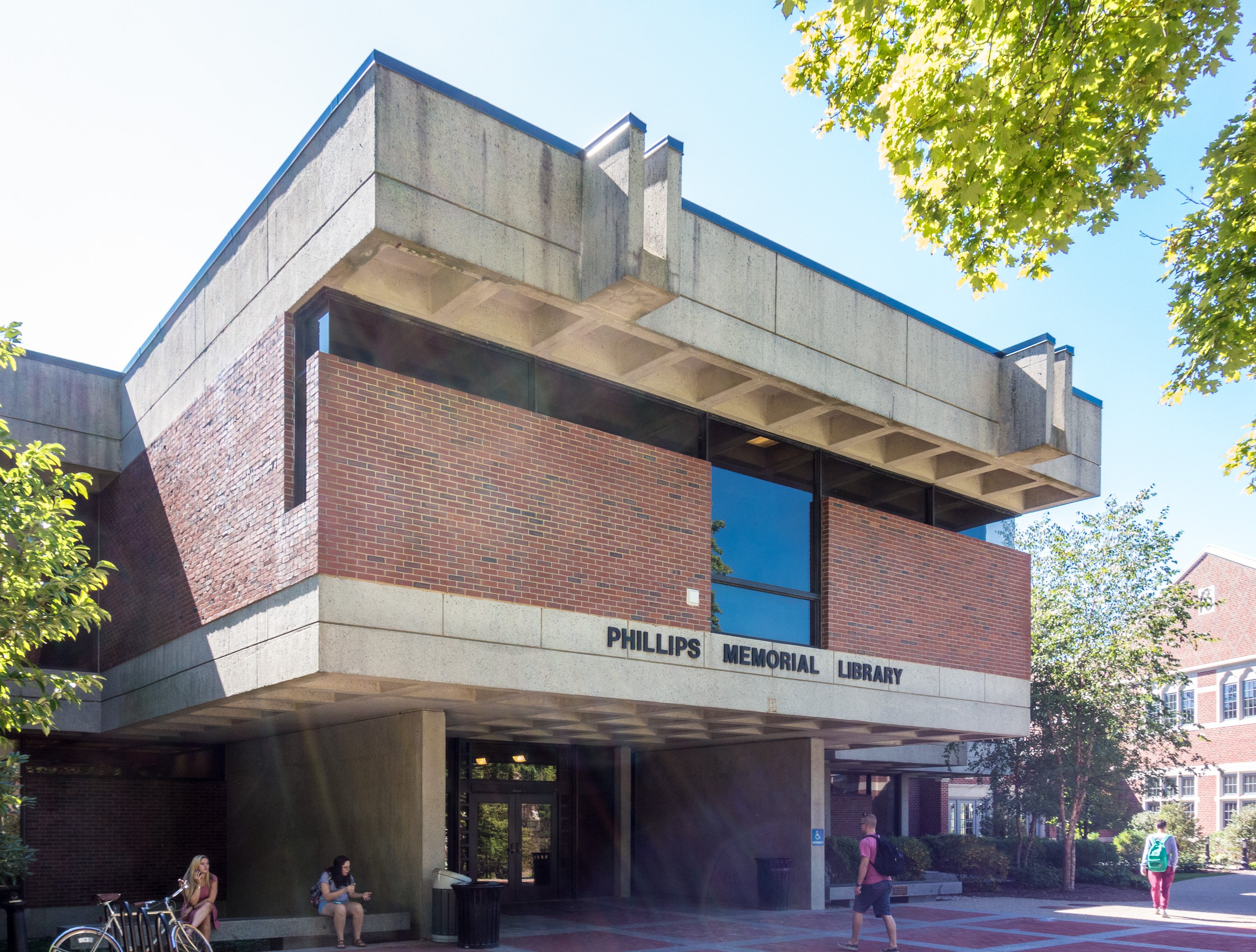 Phillips Memorial Library. Providence College, Providence Rhode Island. Designed by Kenneth DeMay of Sasaki, Dawson, DeMay Associates, 1969.